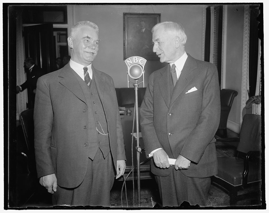 The Norwegian minister of foreign affairs Halvdan Koht (left) and the US secretary of state Cordell Hull.